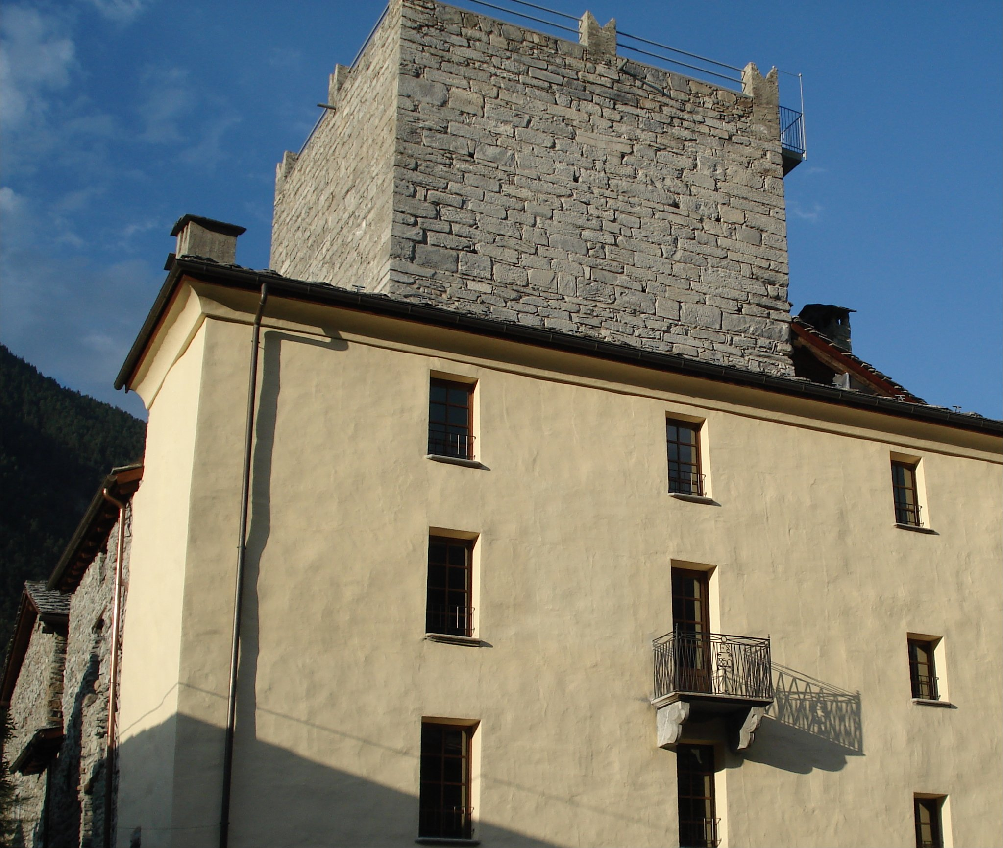 Tour de l'Archet in Morgex in Aosta Valley